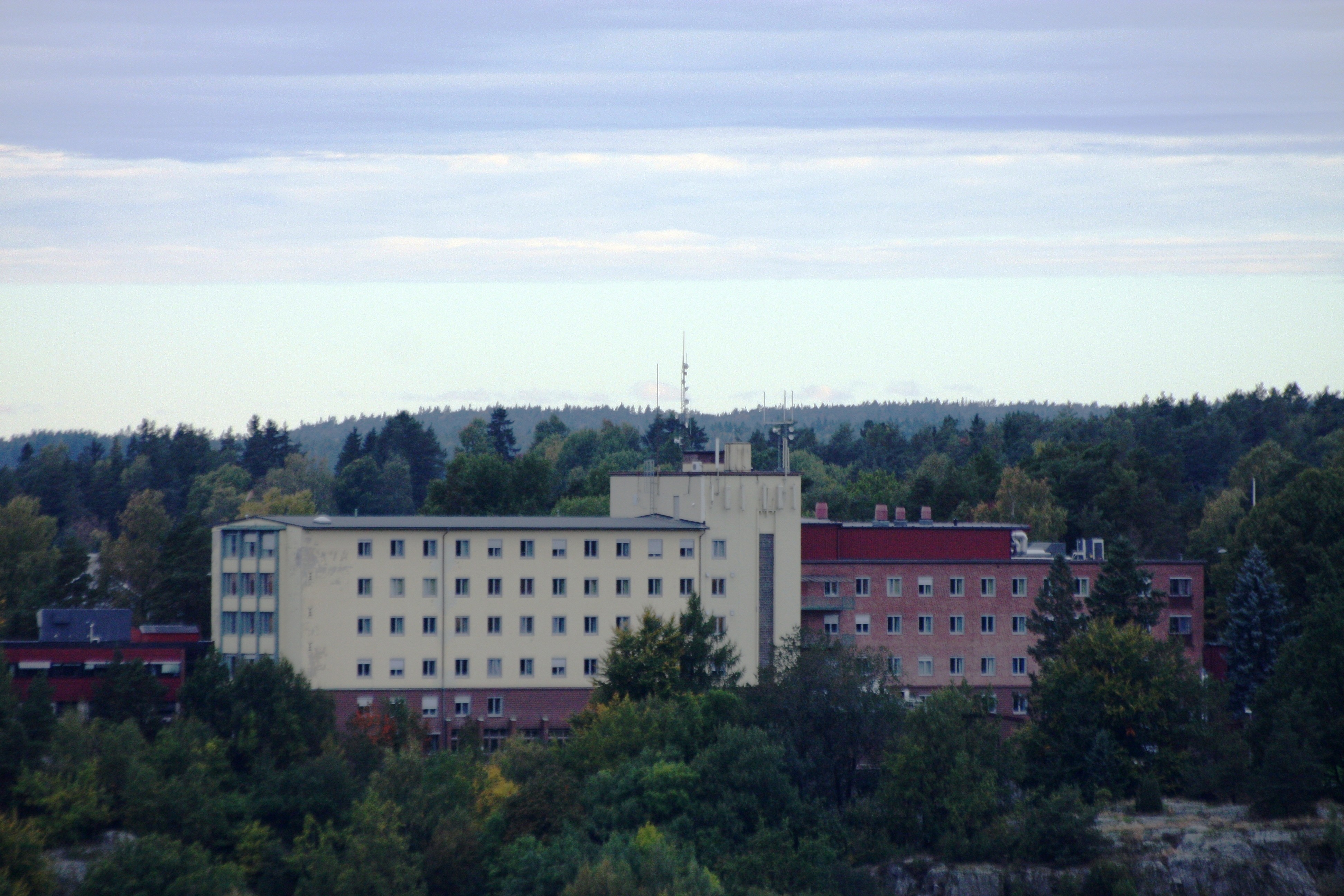 Halden Hospital, Halden (Norway)